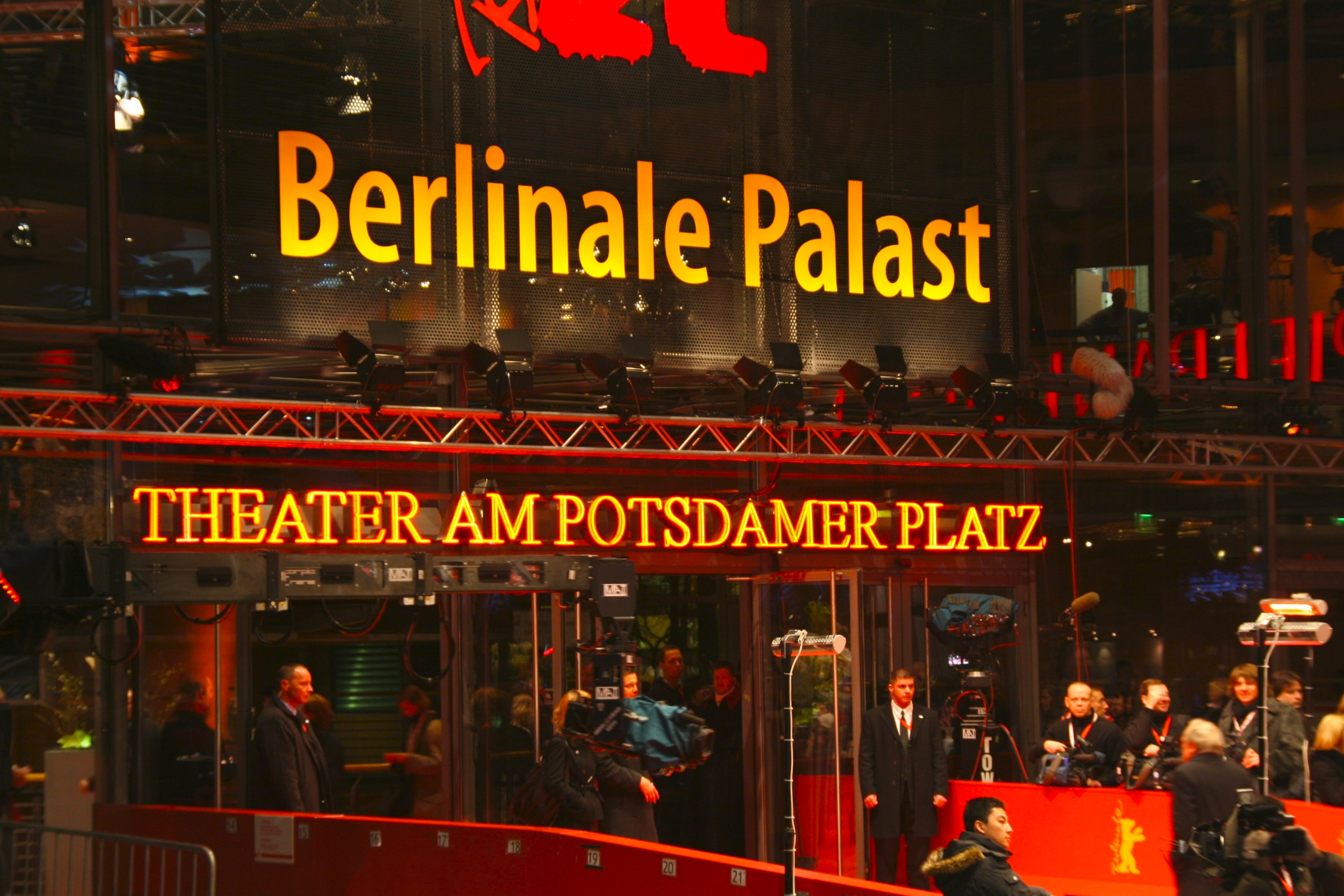 Berlinale 2009 in Berlin